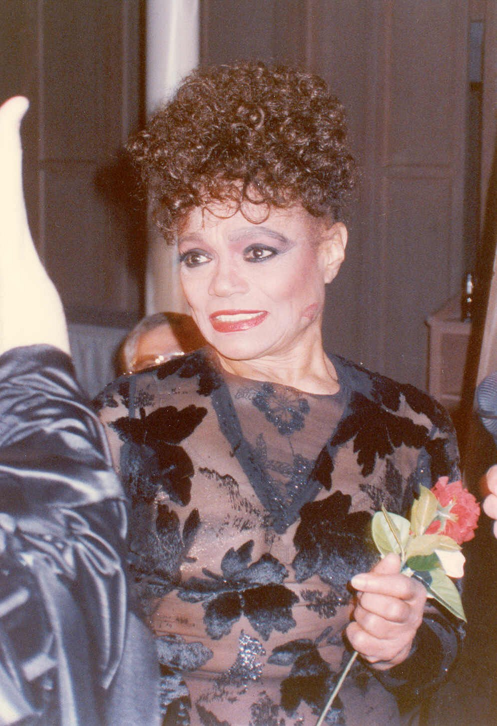 American singer Eartha Kitt.